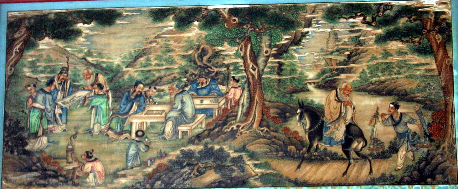 Photograph of the painting "The Seven Saints in the Bamboo Wood" inside the Long Corridor on the grounds of the Summer Palace in Beijing, China. Photograph taken on April 17, 2005 by Rolf Müller.